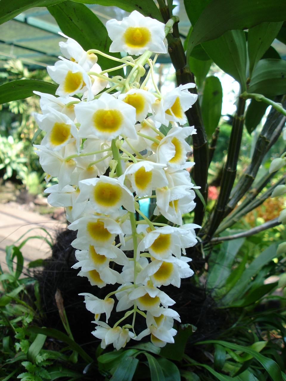 orchid (Singapore botanical gardens)